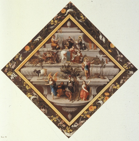 Emblem of the Rhetoric group De Violieren of Antwerp